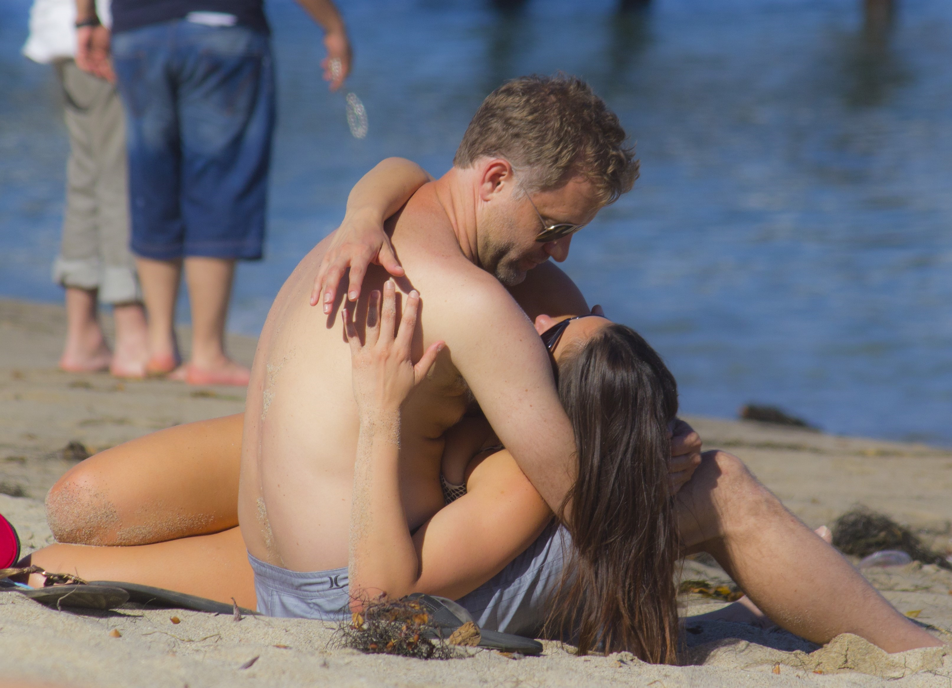 Man and woman in swimwear hugging at a beach in Malibu, California.